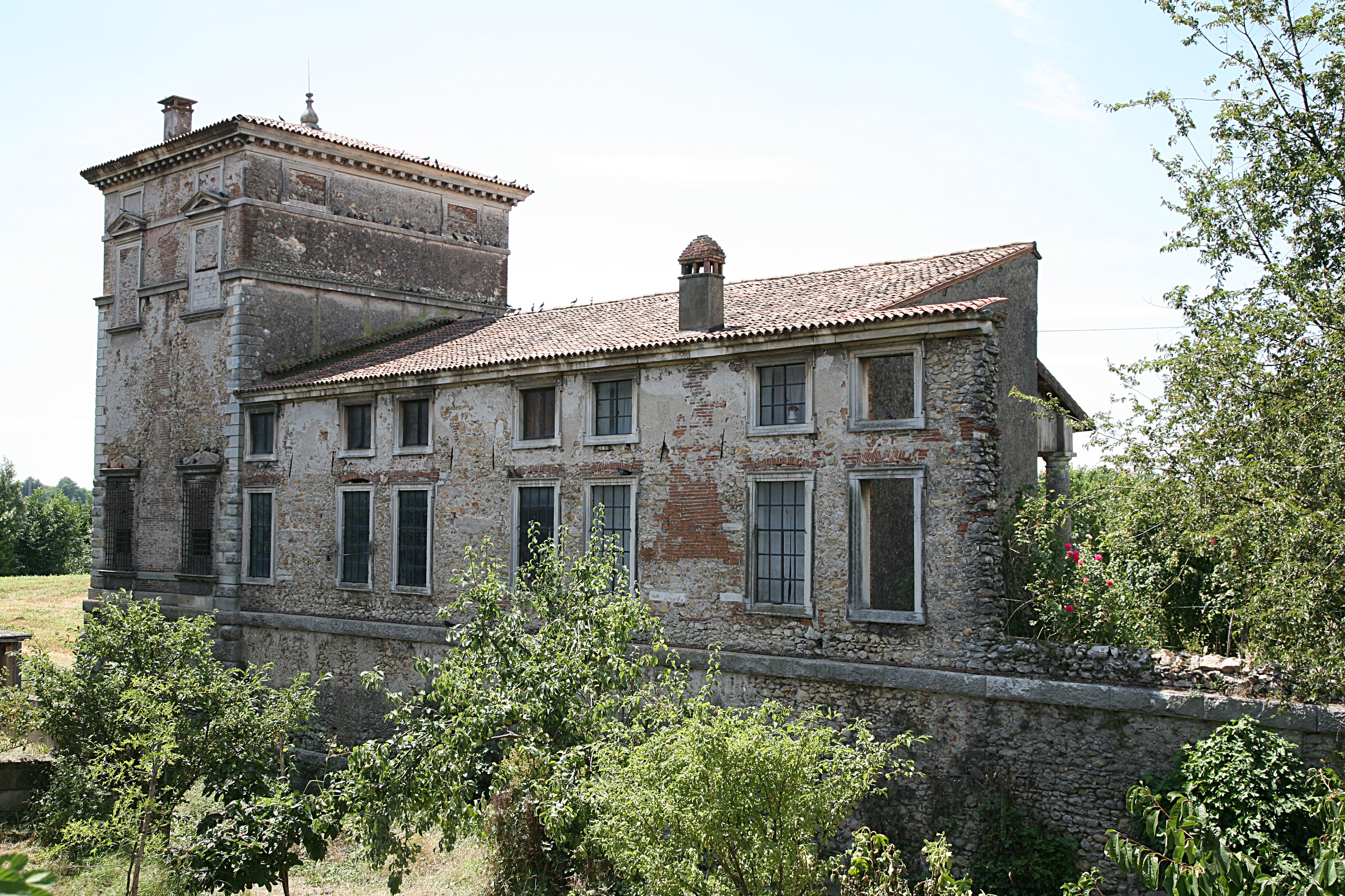 Arcades of Villa Trissino at Meledo di Sarego by Andrea Palladio